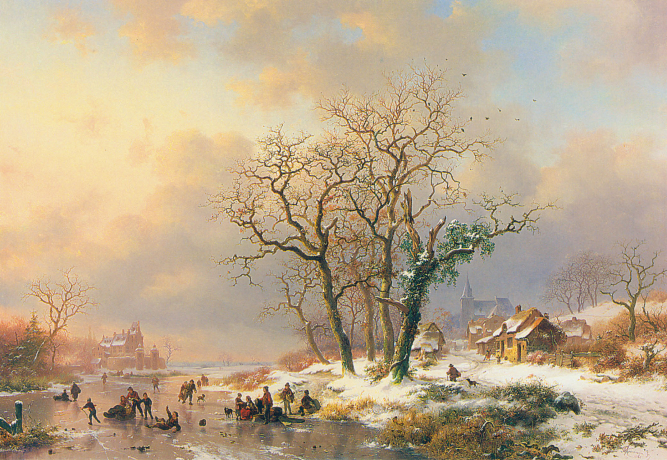 A winter landscape with figures skating on a frozen river, oil on canvas, 70 x 100 cm